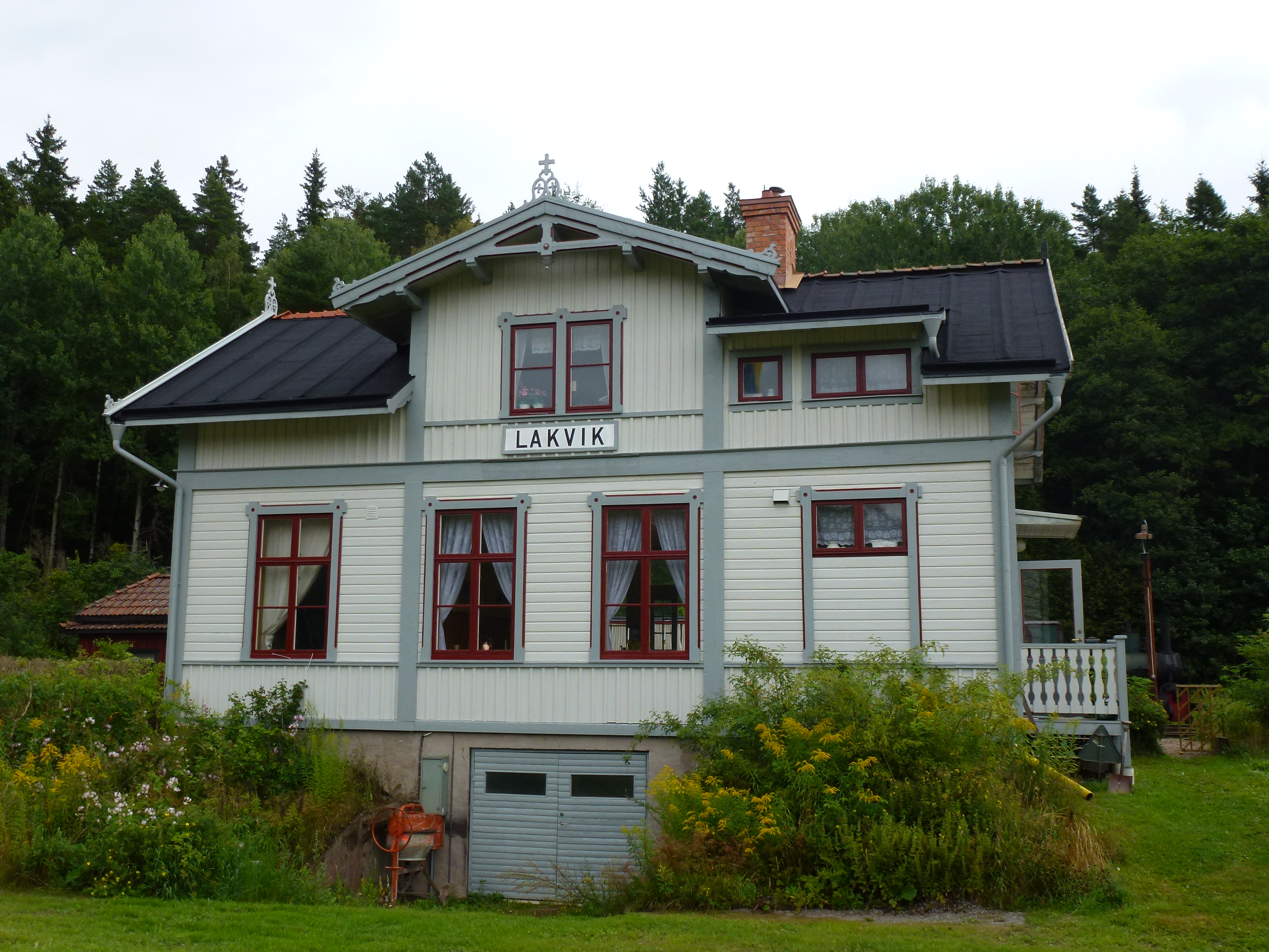 Railway station Lakvik, Östergötland County, Sweden